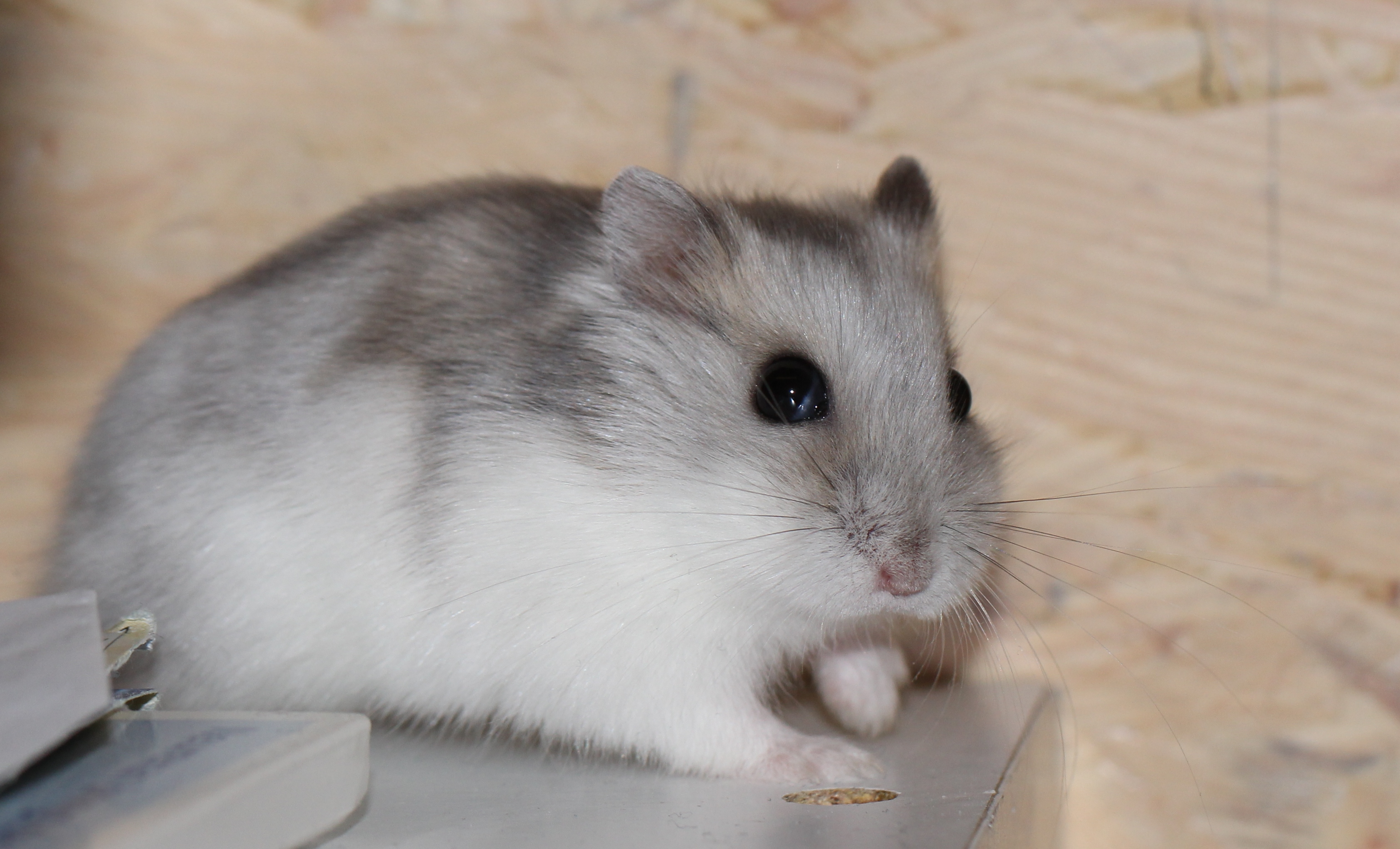 This is Gandalf, a young Djungarian hamster.